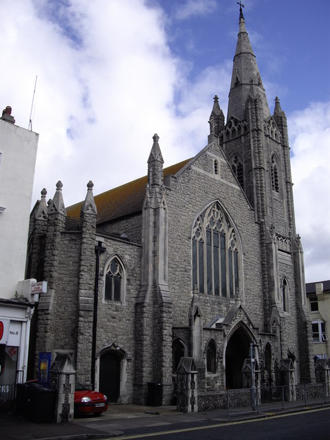 Central Methodist Church Eastbourne